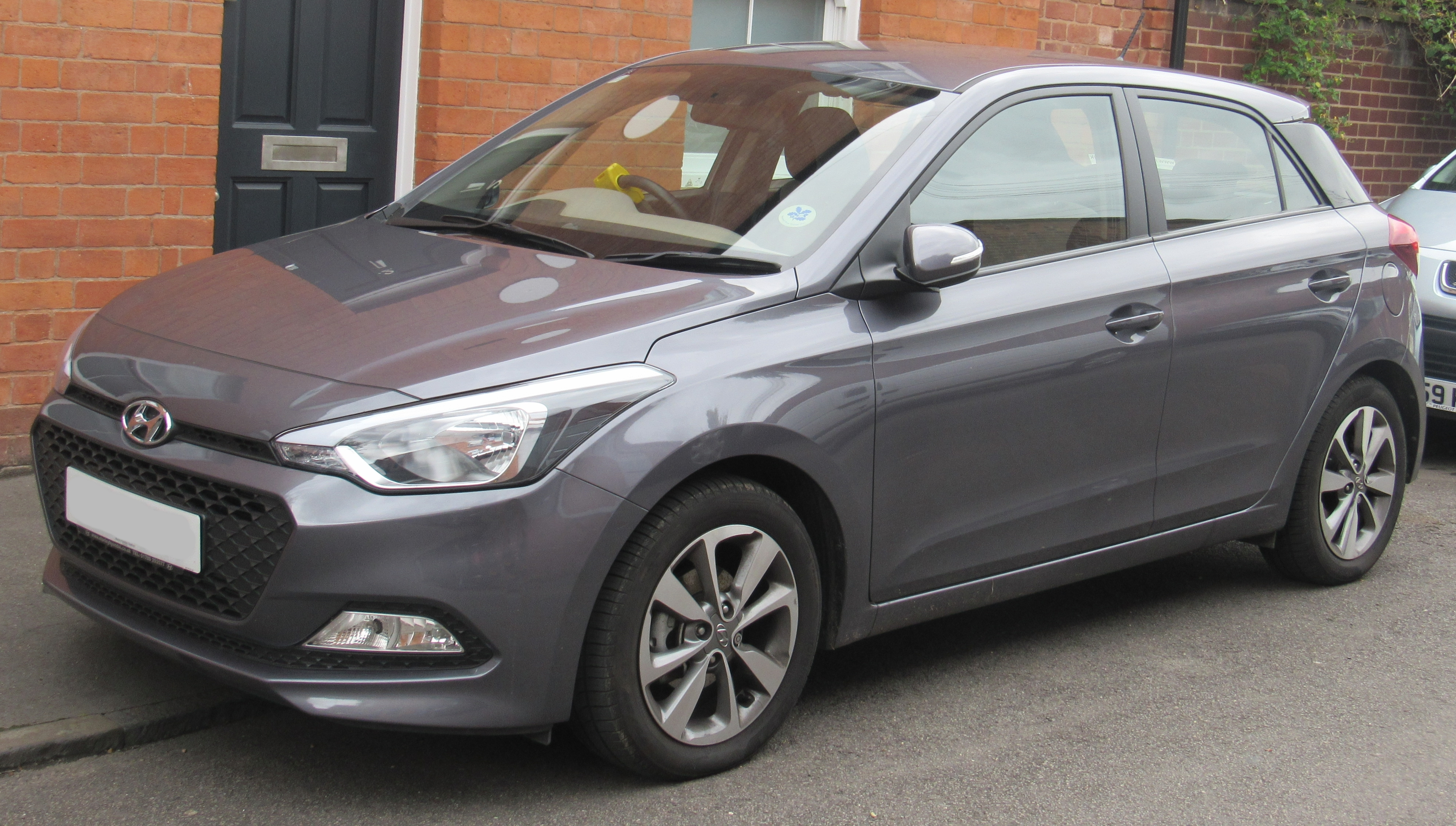 2015 Hyundai i20 SE Automatic 1.4 Front Taken in Leamington Spa